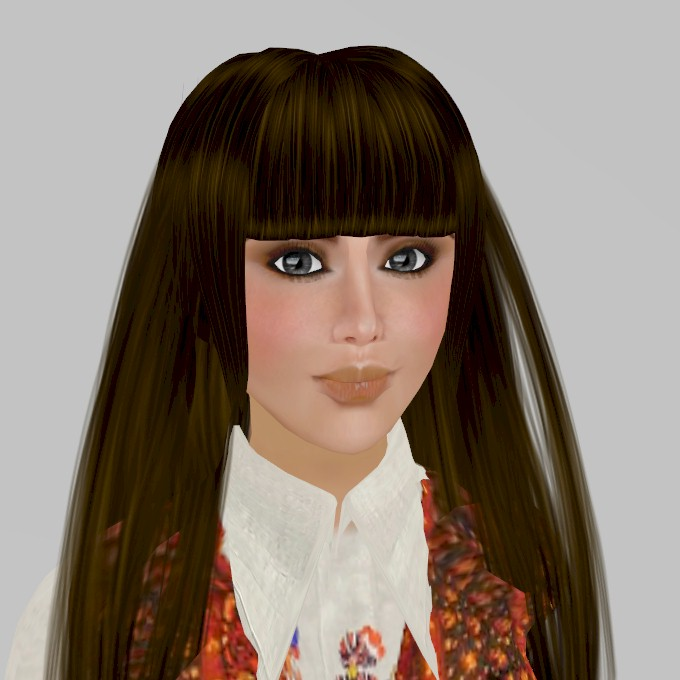 Pattsun (Japanese name of the hairstyle)